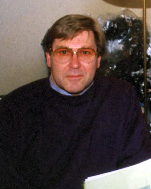 Swedish musician Lars Samuelsson ("Lasse Samuelson"), as released by image creator Lars Jacob ProdPlace: Frödingsvägen 1, Gubbängen, Sweden